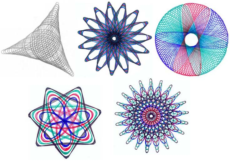 Various Spirograph Designs